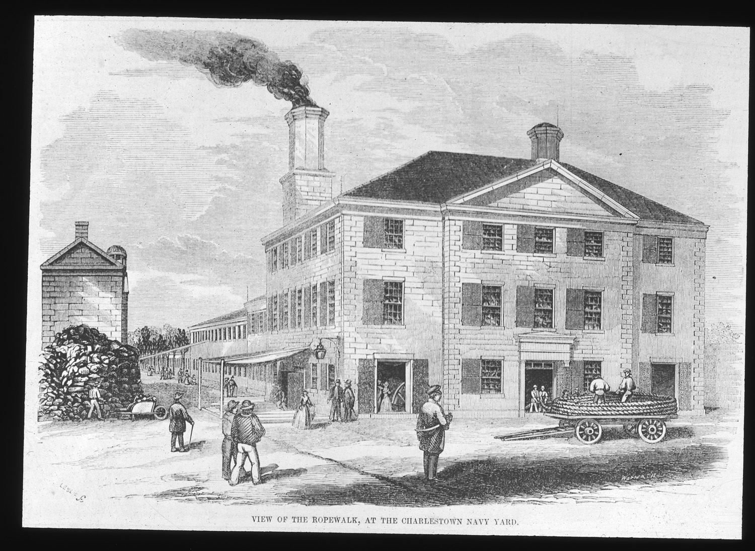 View of the Ropewalk, at the Charlestown Navy Yard in Charlestown, Massachusetts. By Leslie, dated 1852.